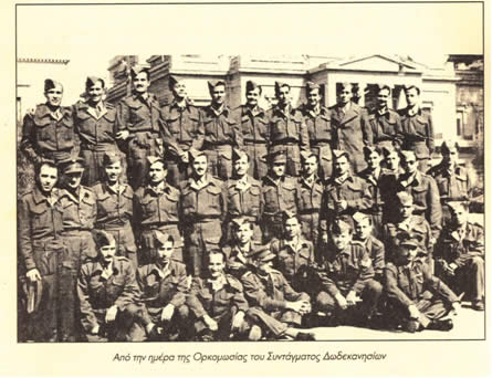 Dodecanese Regiment.WW2.Battle of Greece.Battle of Vevi.1941/04/13-14